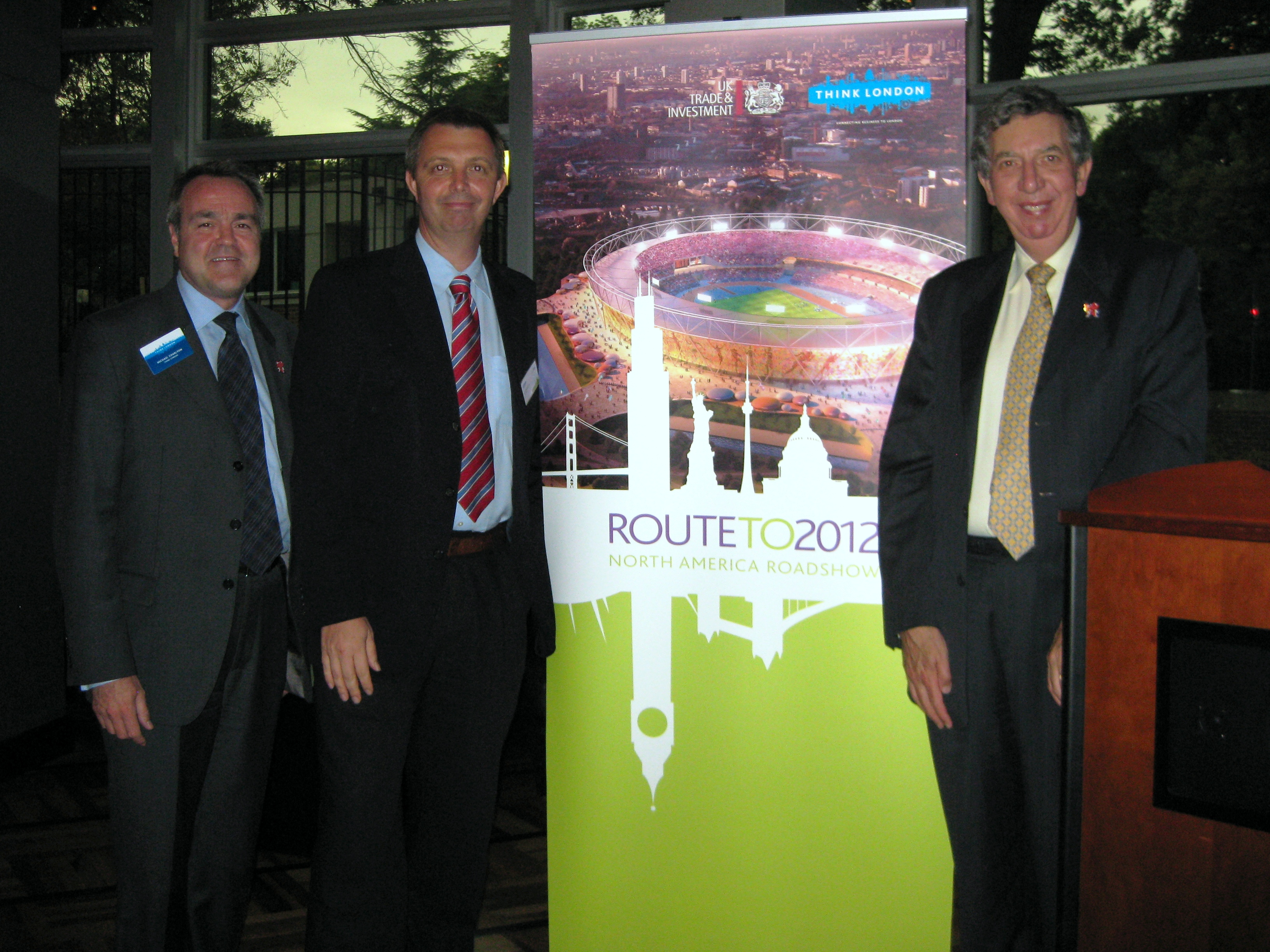 Michael Charlton, Simon Wilson and Sir Alan Collins